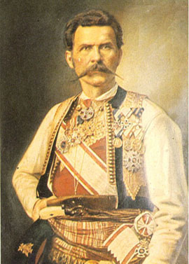 Montenegrin Duke from Herzegovina Ilija Plamenac in 1876.